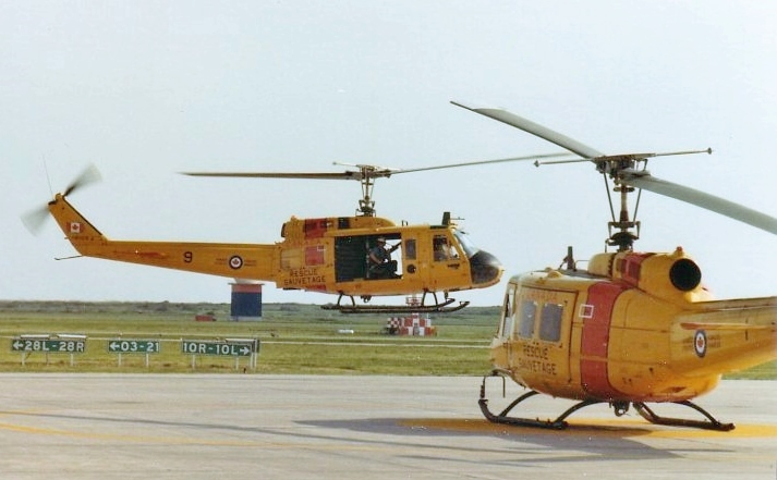 CH-118 Huey helicopters 118109 and 118101 at CFB Moose Jaw